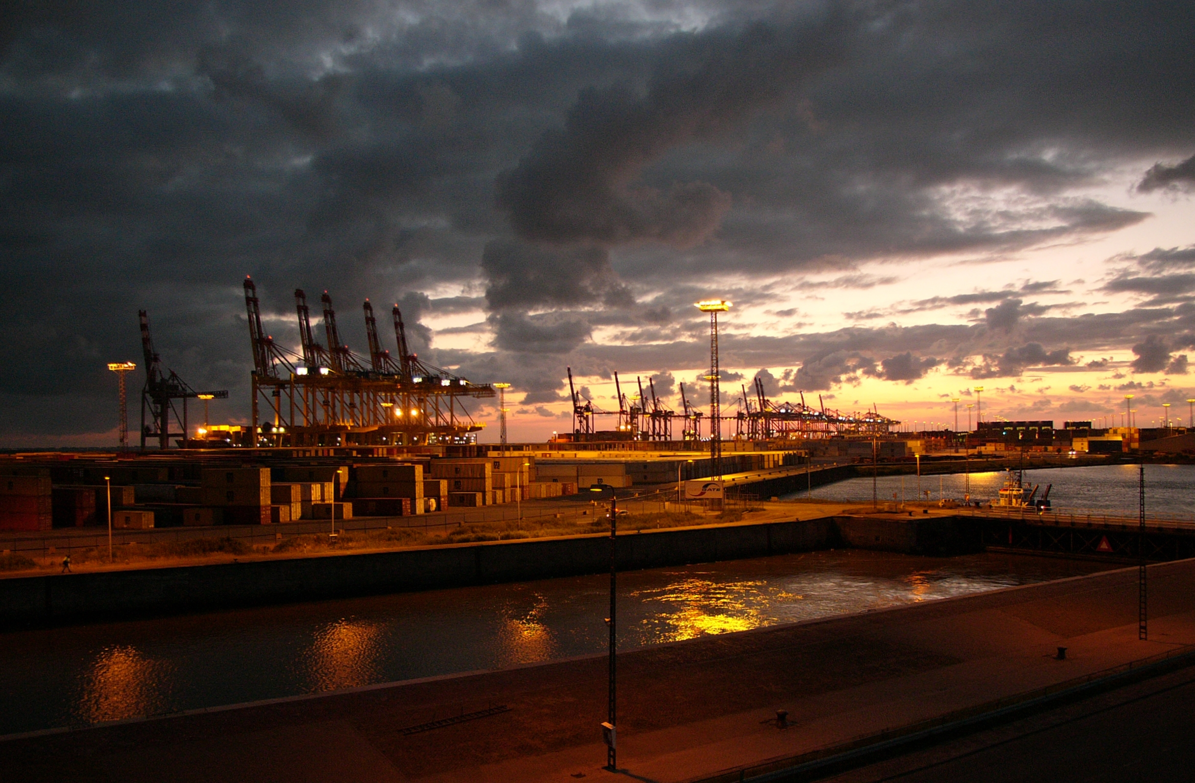 Container Terminal Bremerhaven (Germany), southern most part CT I, Kaiserschleuse in front.